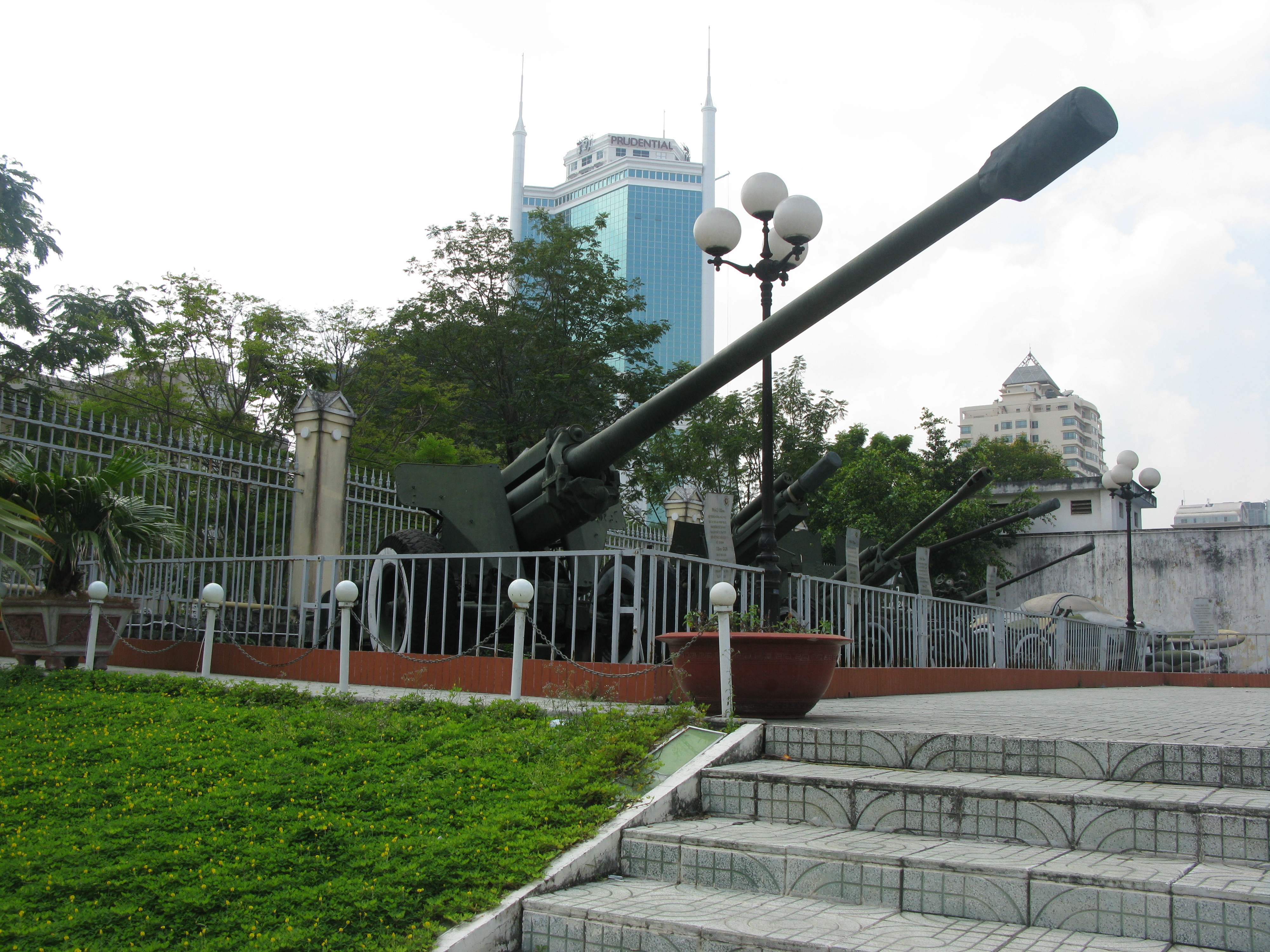 A 130 mm towed field gun M1954 (M-46) of Vietnam People's Army that was set up in Nhon Trach and used to attack Tan Son Nhat Airport during Ho Chi Minh Operation (25th - 30th April 1975). It is now shown in the Museum of Ho Chi Minh Operation.